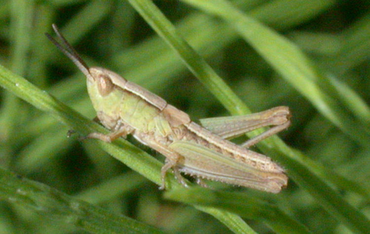 Chorthippus albomarginatus, Barnwell Local Nature Reserve, Cambridge 2003 Jun 16. Photo: Keith Edkins